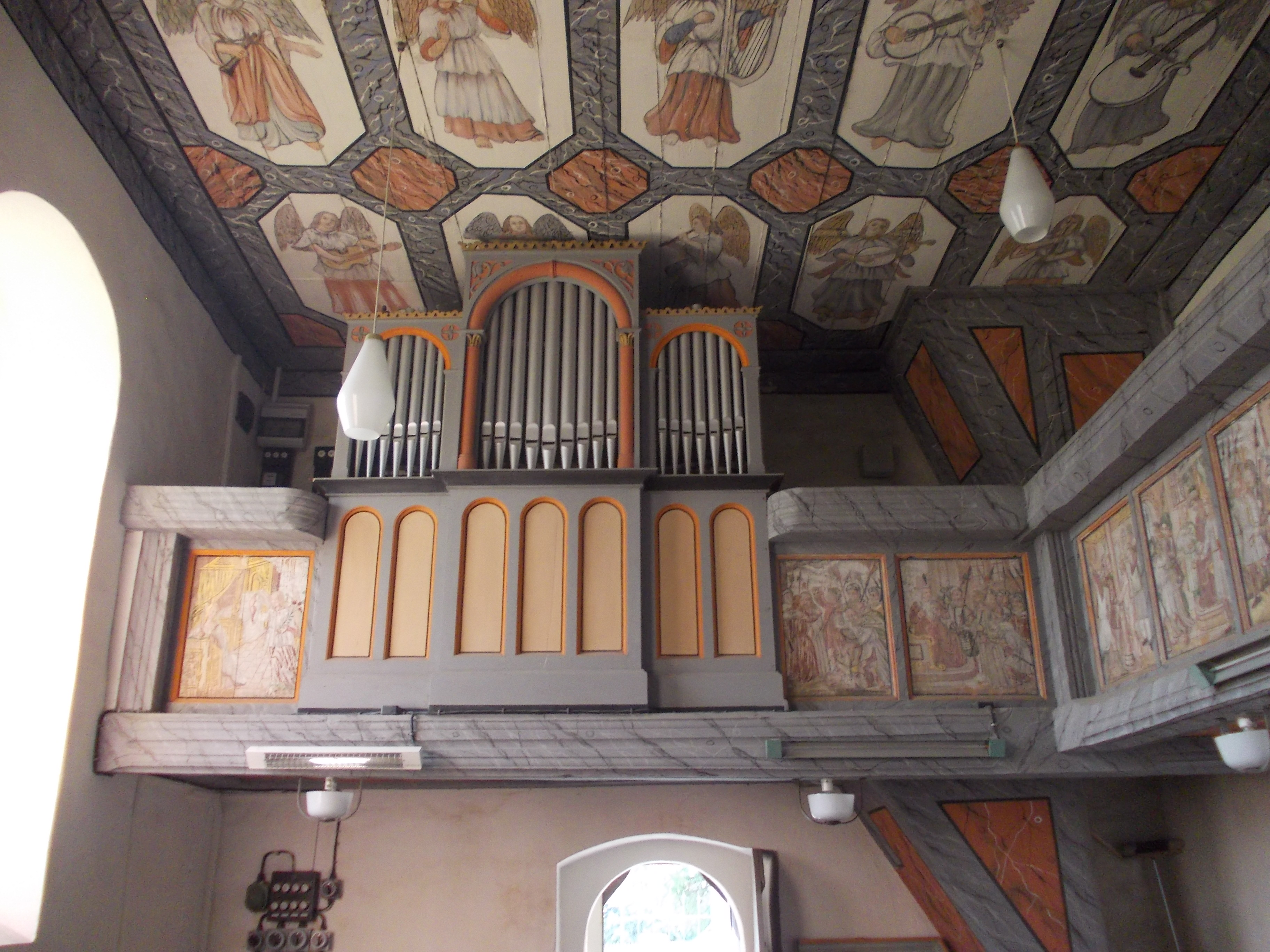 Naundorf church (Gössnitz, Altenburger Land district, Thuringia)